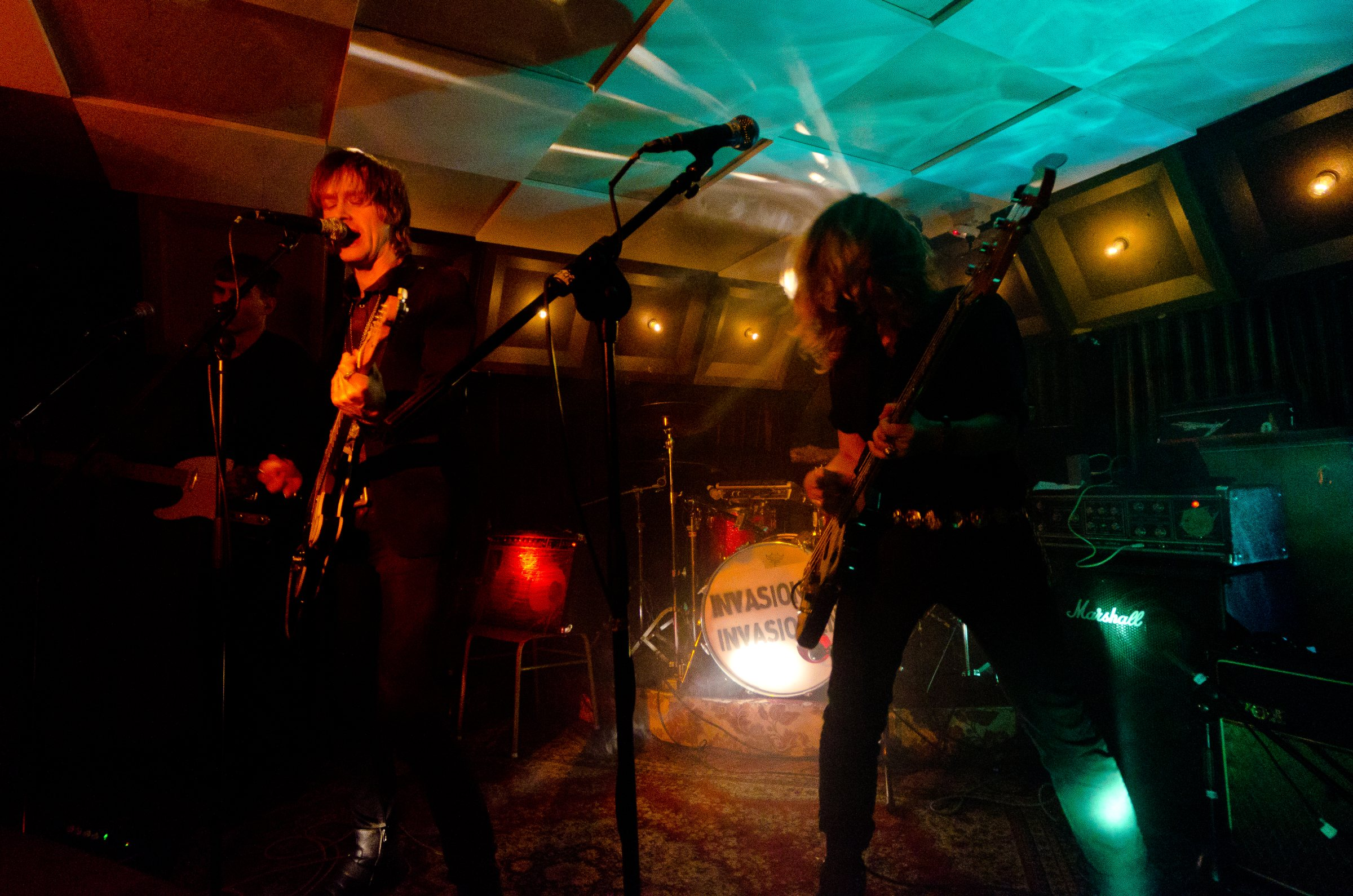 Swedish rock act Invasionen playing live at Växjö's Kafe Deluxe on Wednesday, November 2 2011.